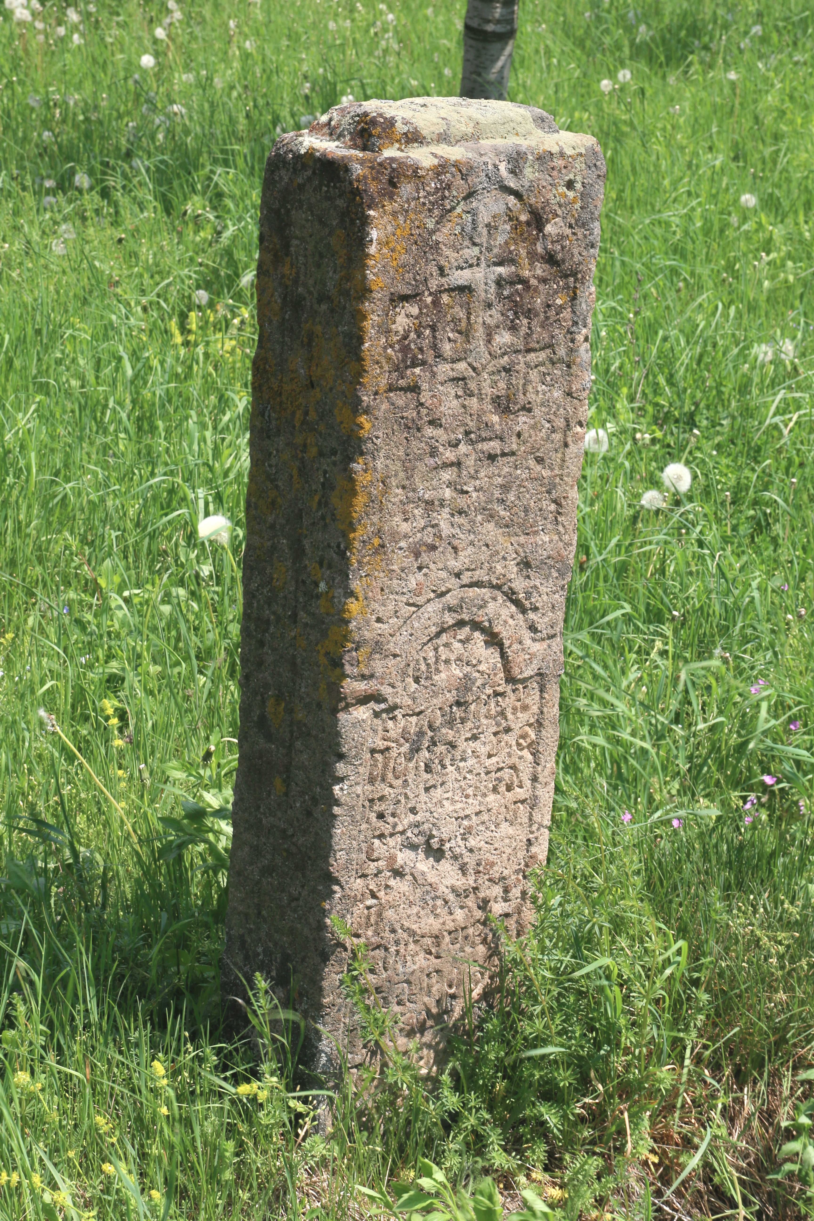 Roadside tombstone erected in memory of the soldier Kovacevic. It is located in the village of Teocin (the municipality of Gornji Milanovac), Serbia.